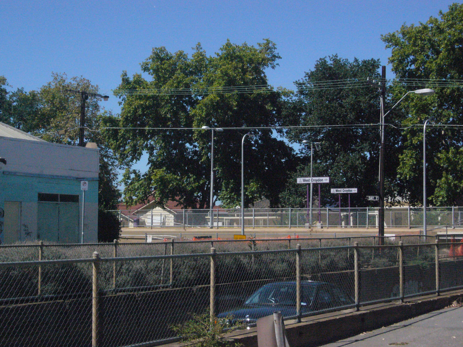 West Croyden Railway Station